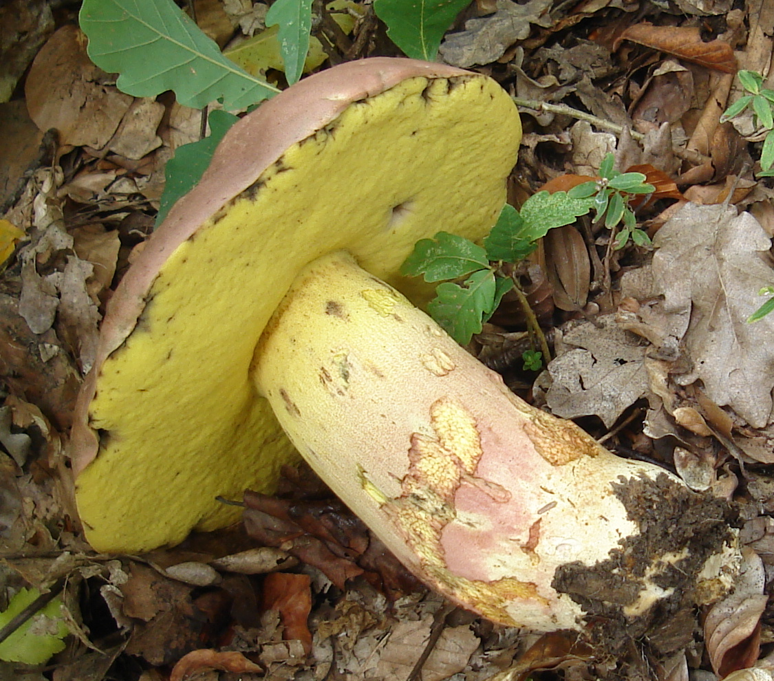 Boletus fuscoroseus, Breaza, Prahova county, Romania